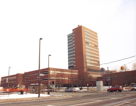 W. O. Walker Center at East 105th Street and Euclid Avenue in Cleveland